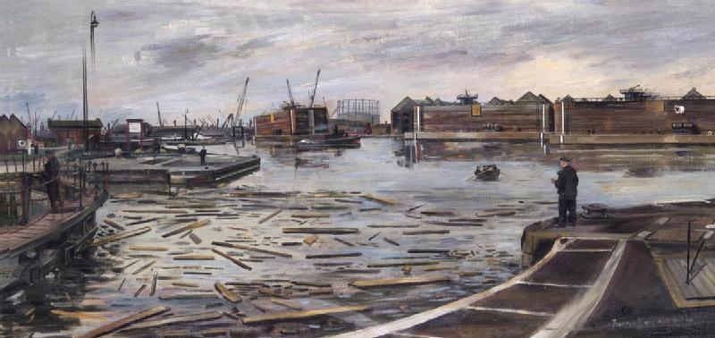 A large wide dockyard scene with three large caissons in the background; a large number of wooden planks float in the foreground water.